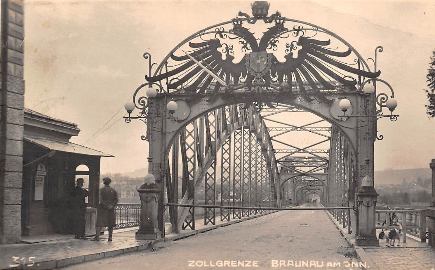 Custom checkpoint at Braunau am Inn's bridge connecting Austria with Bavaria, c. 1910. Contemporary postcard.